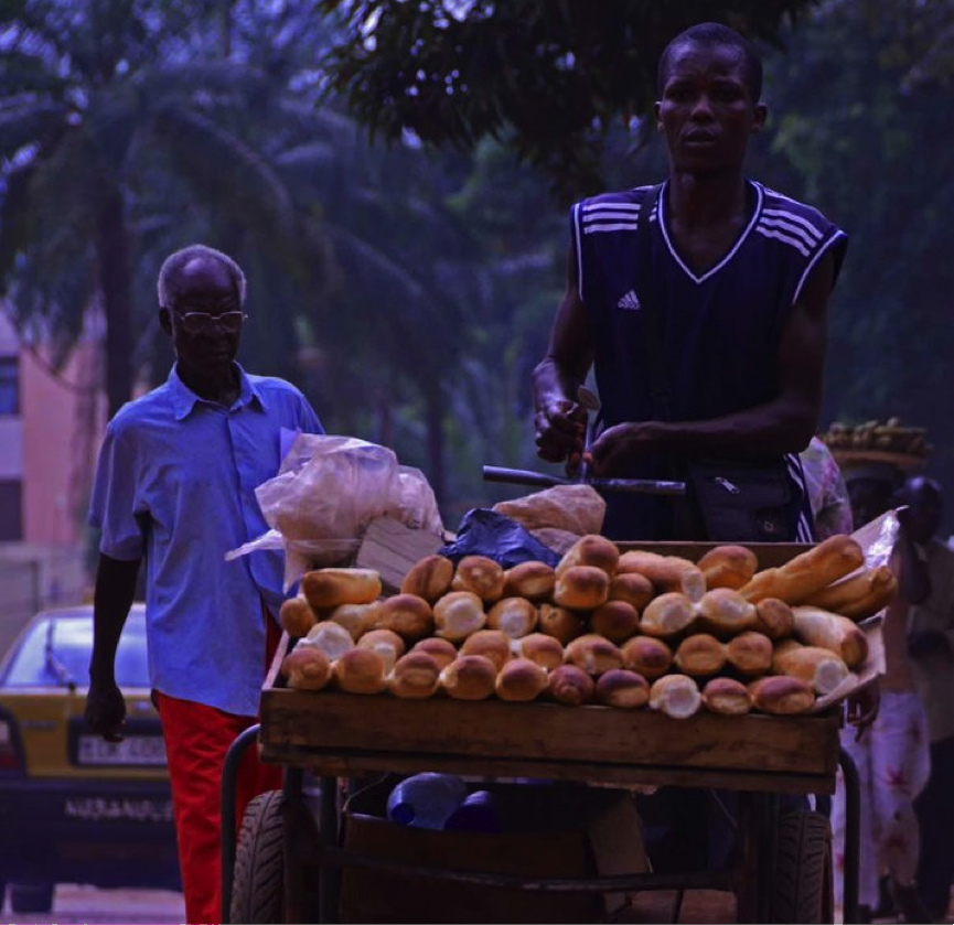 Trading methods in Bangui Market Visit our website to learn more about the mission